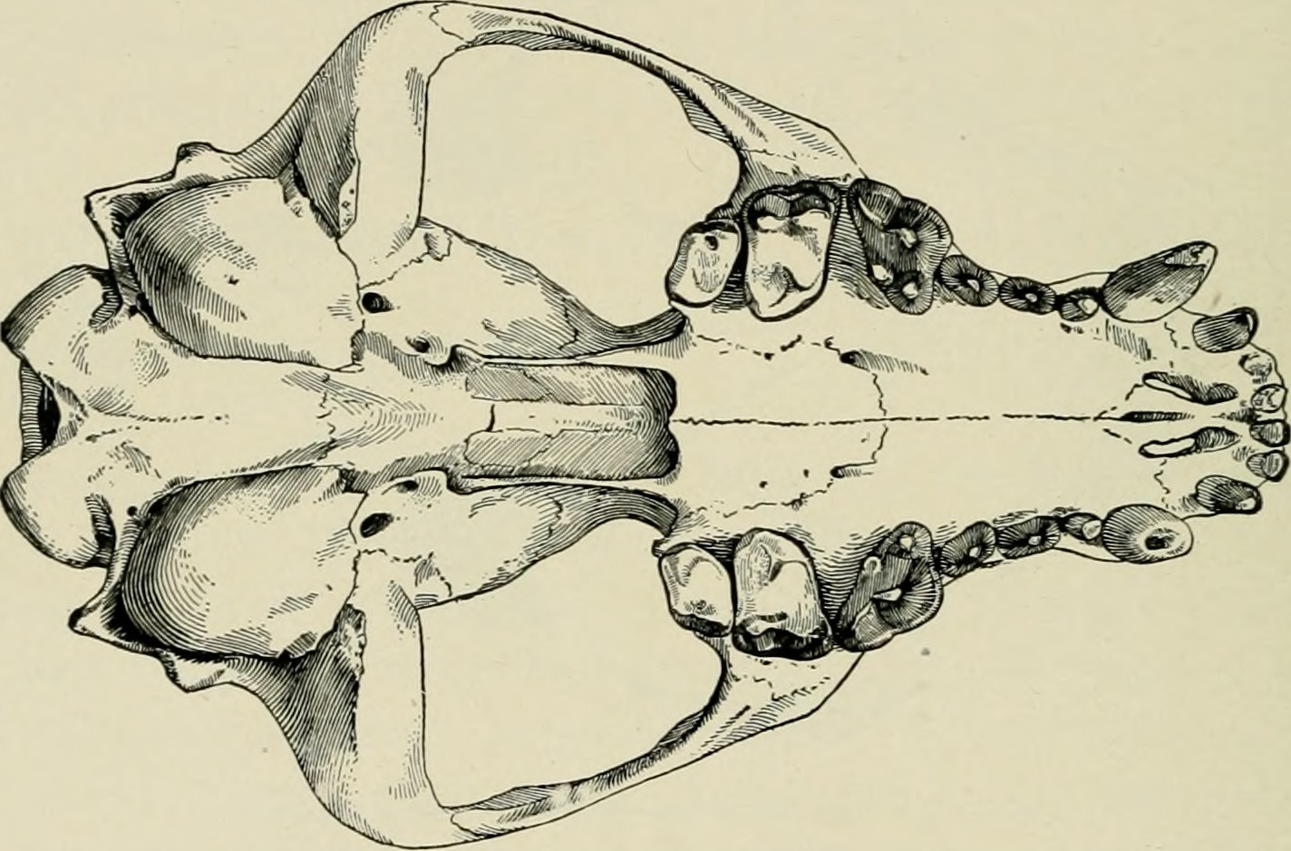 Title: The American Museum journal Year: c1900-(1918) (c190s) Authors: American Museum of Natural History Subjects: Natural history Publisher: New York : American Museum of Natural History Text Appearing Before Image: 38 THE AMERICAN MUSEUM JOURNAL illustrate the evolution of these animals from the primitive civet-like Camivora of the Eocene epoch. The Miocene stage, Leptarctus, is very little known; only a lower jaw and an upper tooth have been found. Of the Oligocene stage, Phlaocyon, a nearly complete skeleton was found in 1898, of which the skull, jaws, limbs and feet are on exhibition. This unique specimen is one of the best preserved fossil Carnivores in the collection. It is intermediate between the civet-like ancestors of the dogs (DaphcBnus and Cynodictis) and the modem raccoons. The Text Appearing After Image: FIG. 14. UNDER SIDE OF SKULL OF PHLAOCYON A link between raccoons and primitive dogs. Lower Miocene of Colorado. Natural size shape of the skull is raccoon-like, but the number of teeth is the same as in the dogs, while their form is intermediate between the two types. The limbs and feet are also intermediate. It is probable, therefore, that the Dogs and Raccoons are derived from a common ancestral stock. Specimens found in Europe in- dicate that the Bears are likewise derived from this common stock, and that the three families have diverged, the Dogs becom- ing terrestrial fiesh-eaters, living largely in open country, the Bears omnivorous and living in the woods, the Raccoons omniv- orous and arboreal.